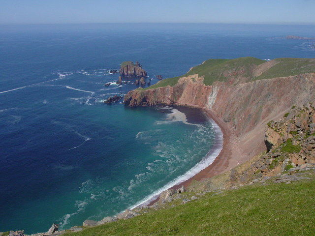 On Stonga Banks, view to Turls Head and Gruna Stack. If the weather is fine, it is well worth the walk from Collafirth Hill via Ronas Hill to Stonga Banks to be rewarded by this spectacular view eight hundred feet above the sea.